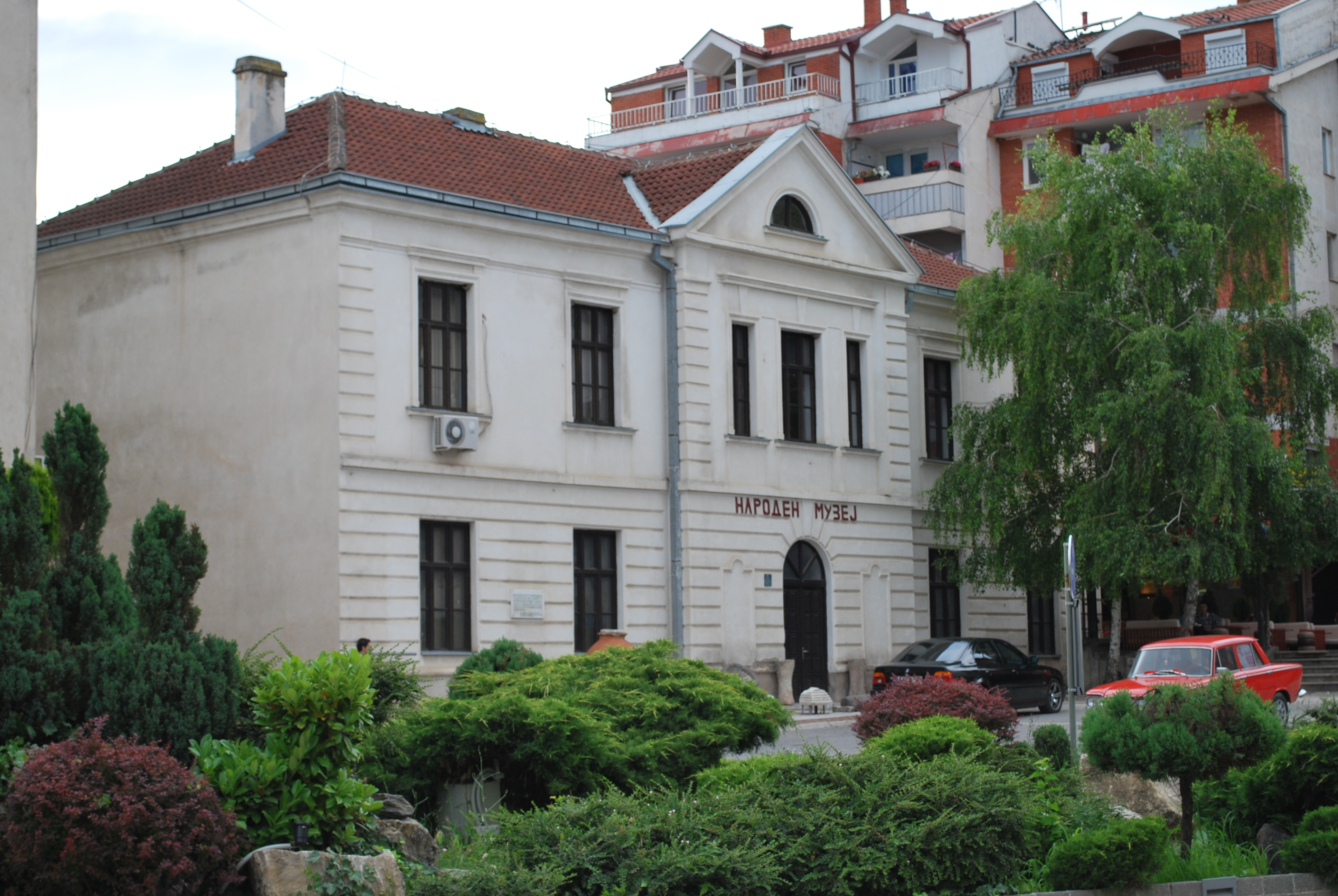 ISveti Nikole, Macedonia